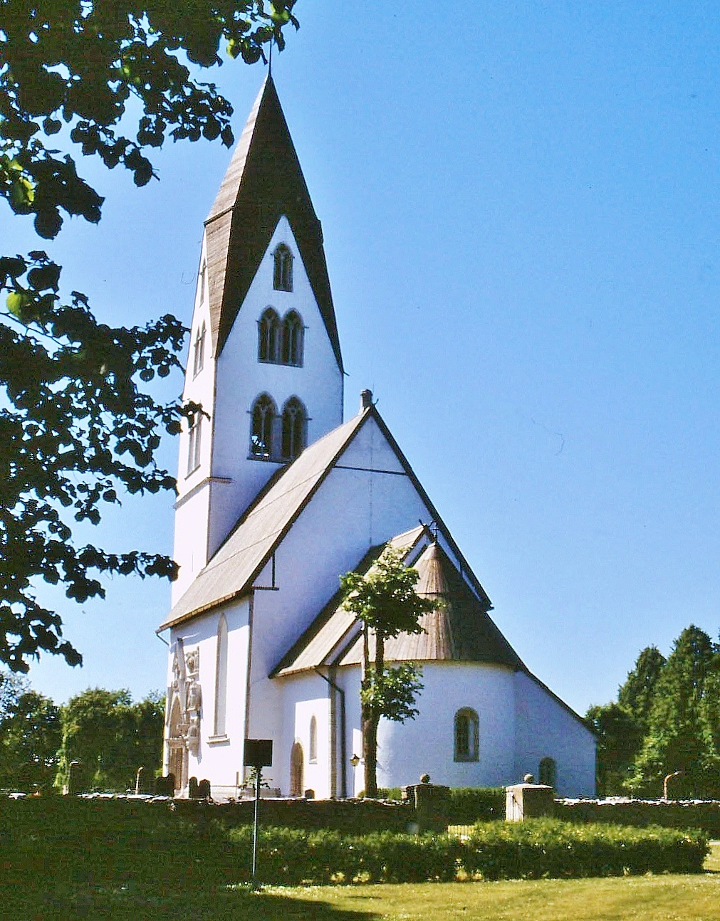 Stånga Church.Exterior